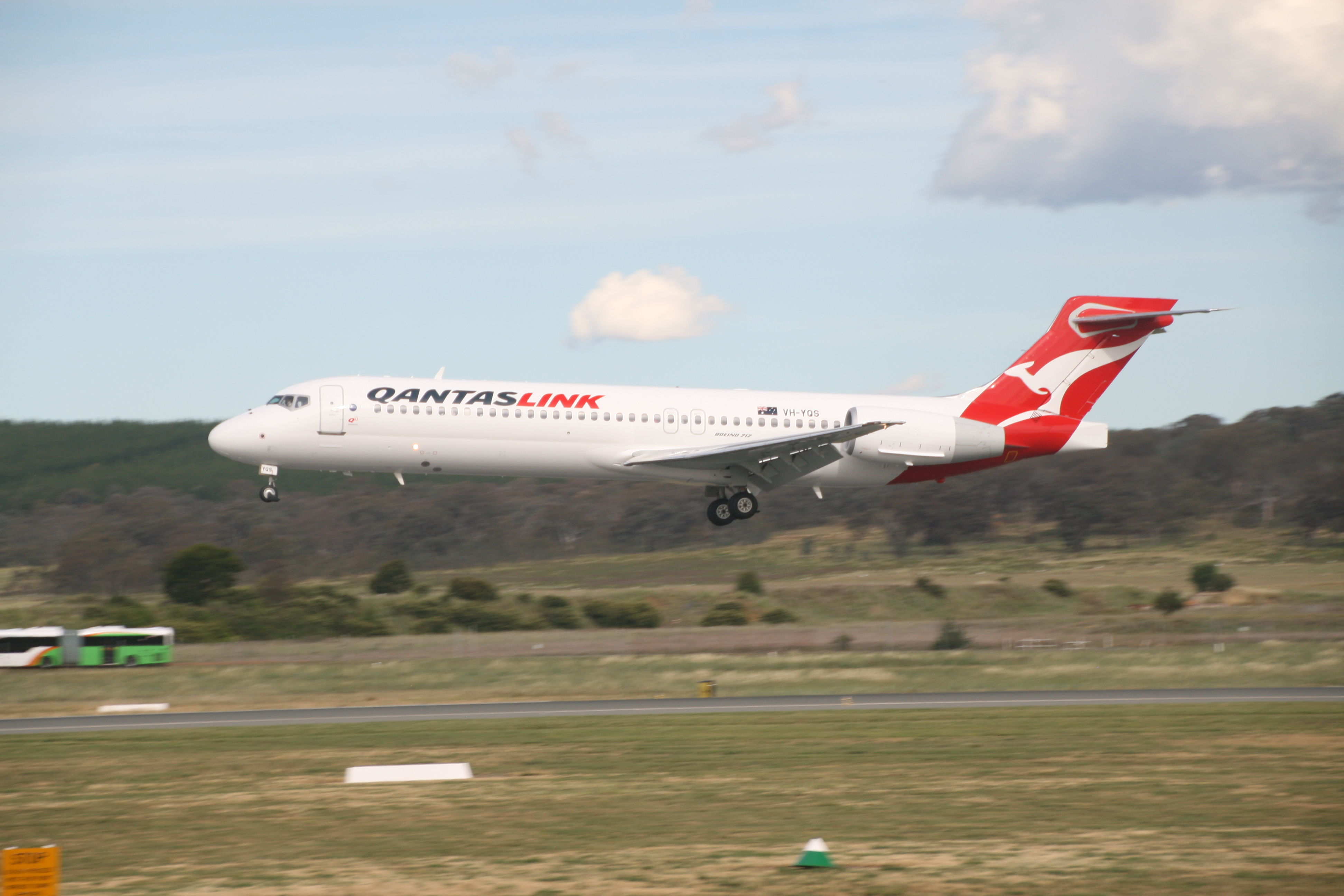 A National Jet Systems Boeing 717-200, operating a QantasLink service from Brisbane to Canberra, flaring for its landing. Digital image of VH-YQS taken by YSSYguy at Canberra International Airport on 20 November 2013 and uploaded for use in the Cobham Aviation Services Australia article. YSSYguy (talk) 05:27, 12 March 2014 (UTC)